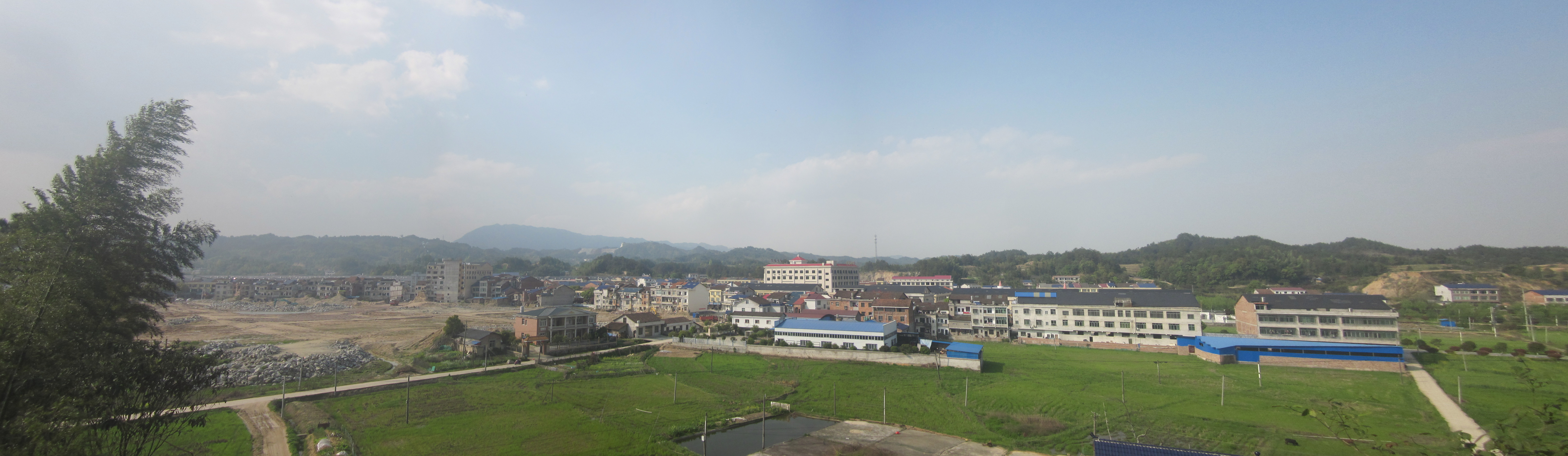 Panoramic image of Qingshanqiao Town. Qingshanqiao is a rural town in southwestern Ningxiang, Hunan, China.